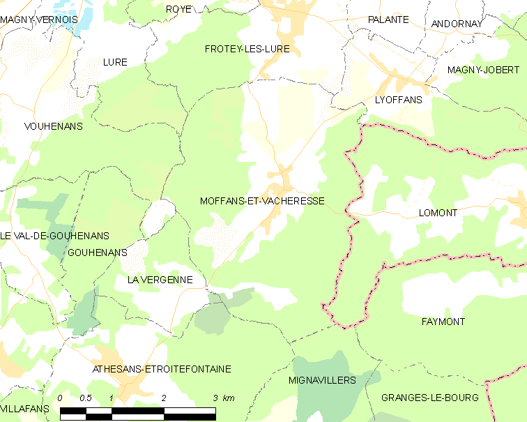 Map of French municipality